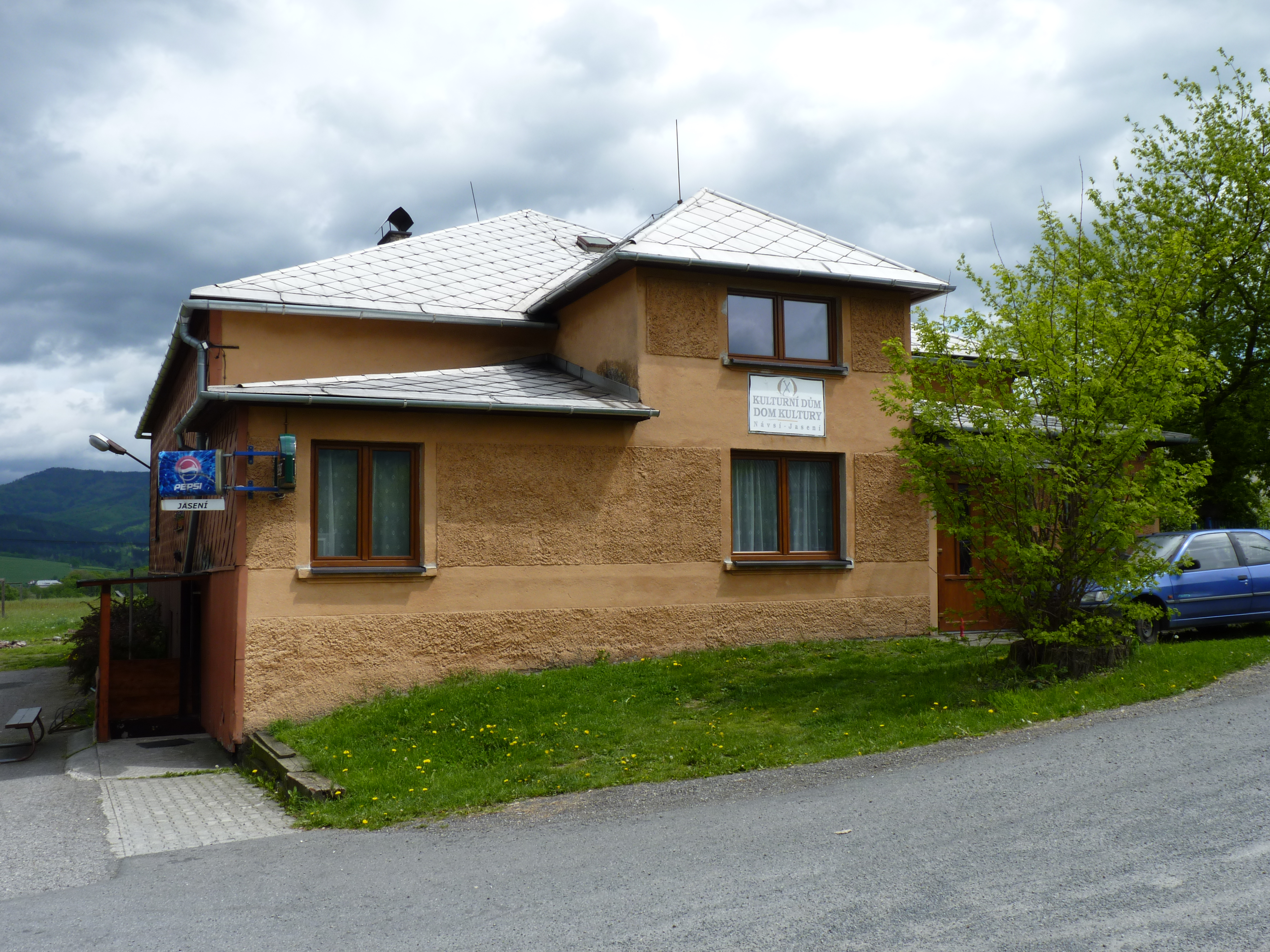 Milíkov, Frýdek-Místek District, Moravian-Silesian Region, Czech Republic Project: Chráněná území